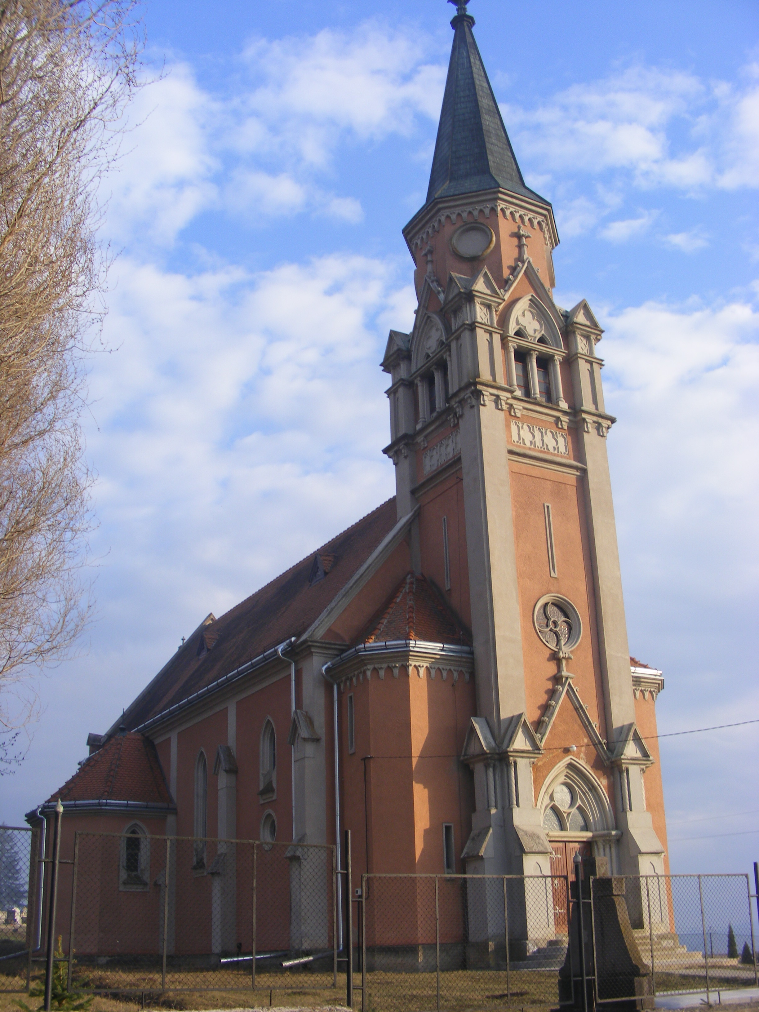 The romano-catholic church in Csíkborzsova (Bârzava).